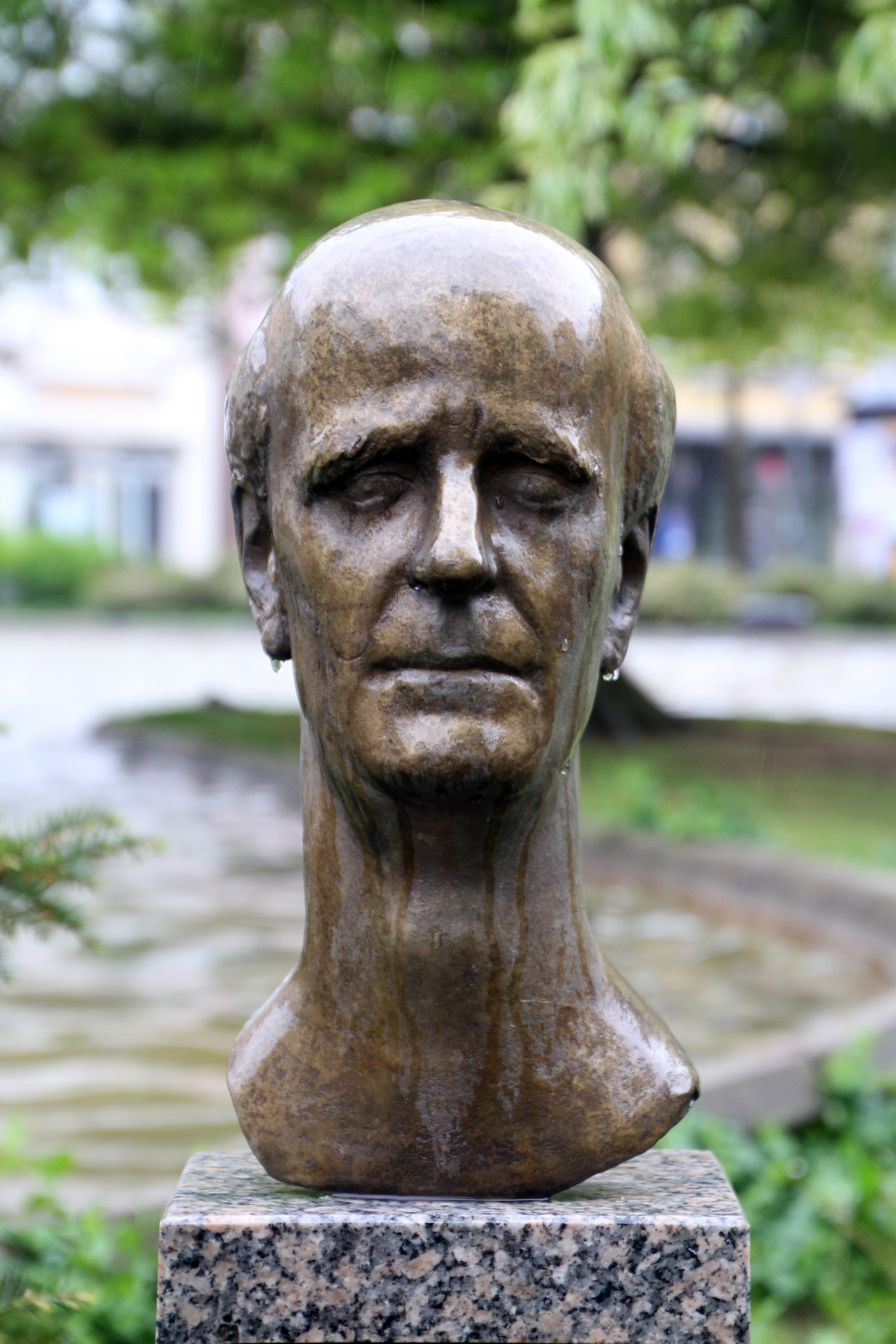 Bust of the conductor Wilhelm Furtwängler (1886-1954) at the Augustaplatz in Baden-Baden, built in 2009.